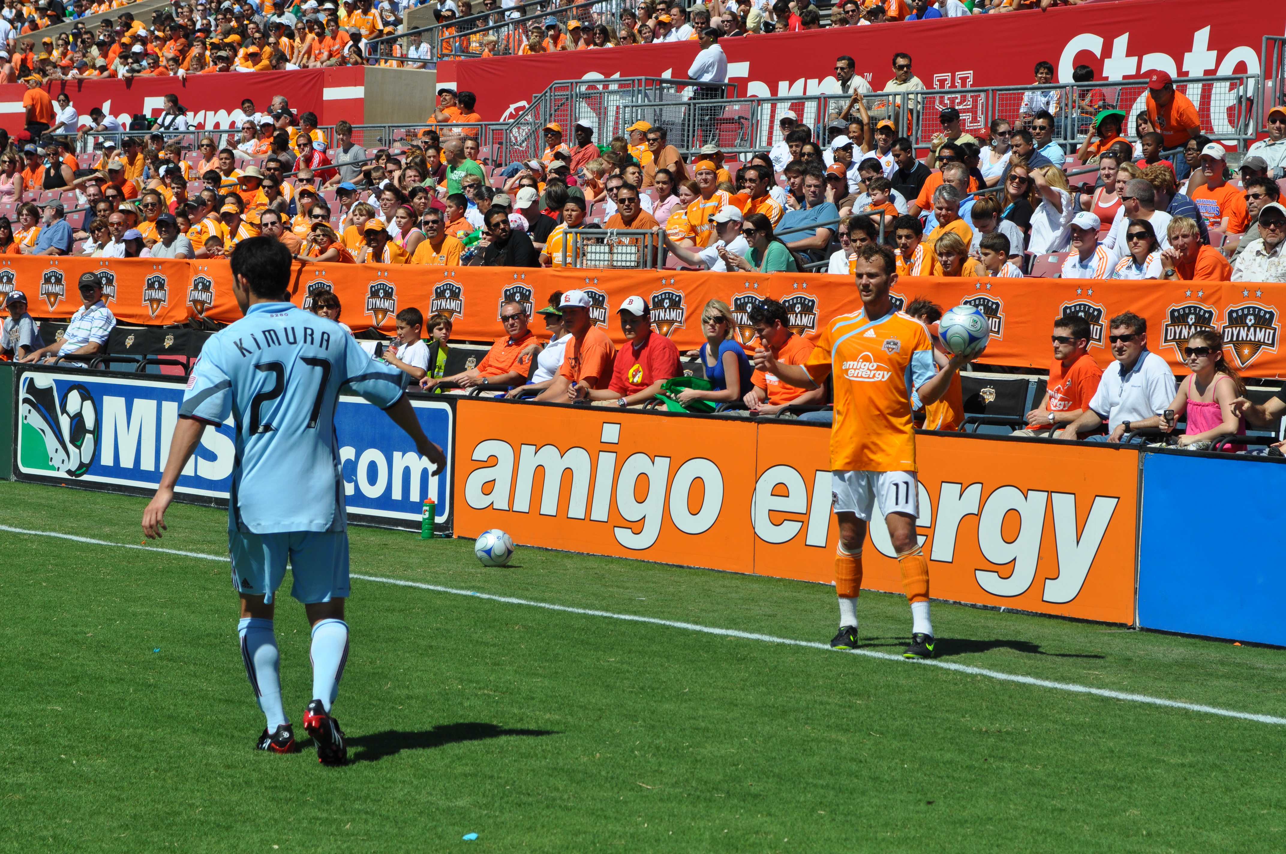 Brad Davis of Houston Dynamo waiting to throw the ball in